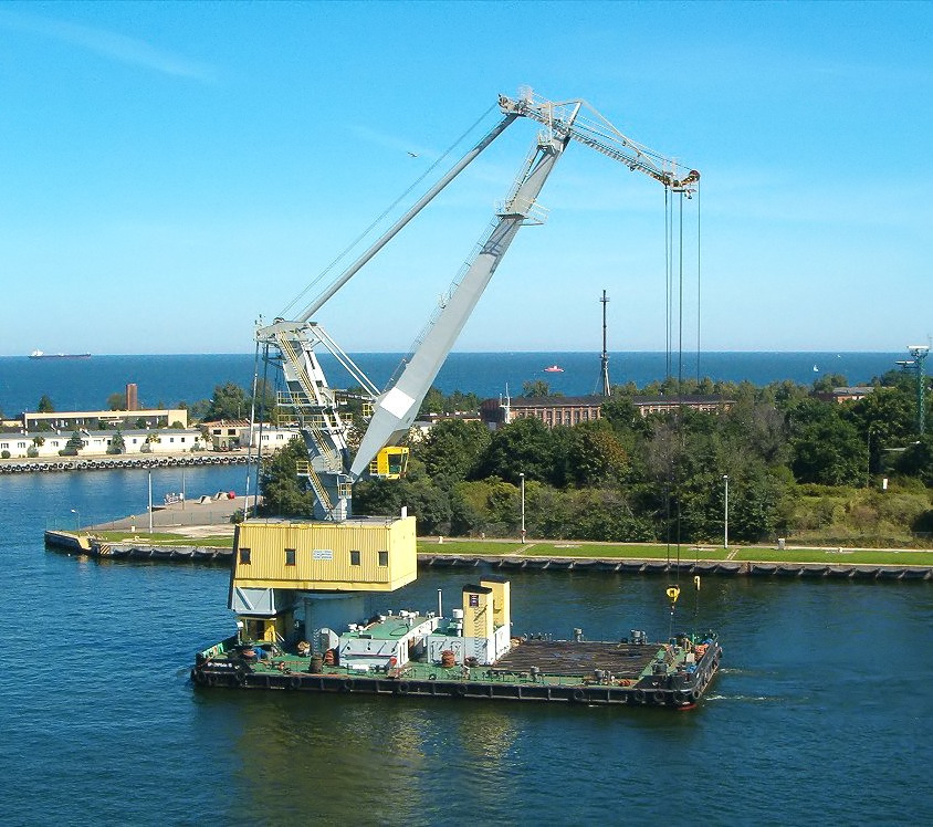 Floating crane in Gdansk, Poland.